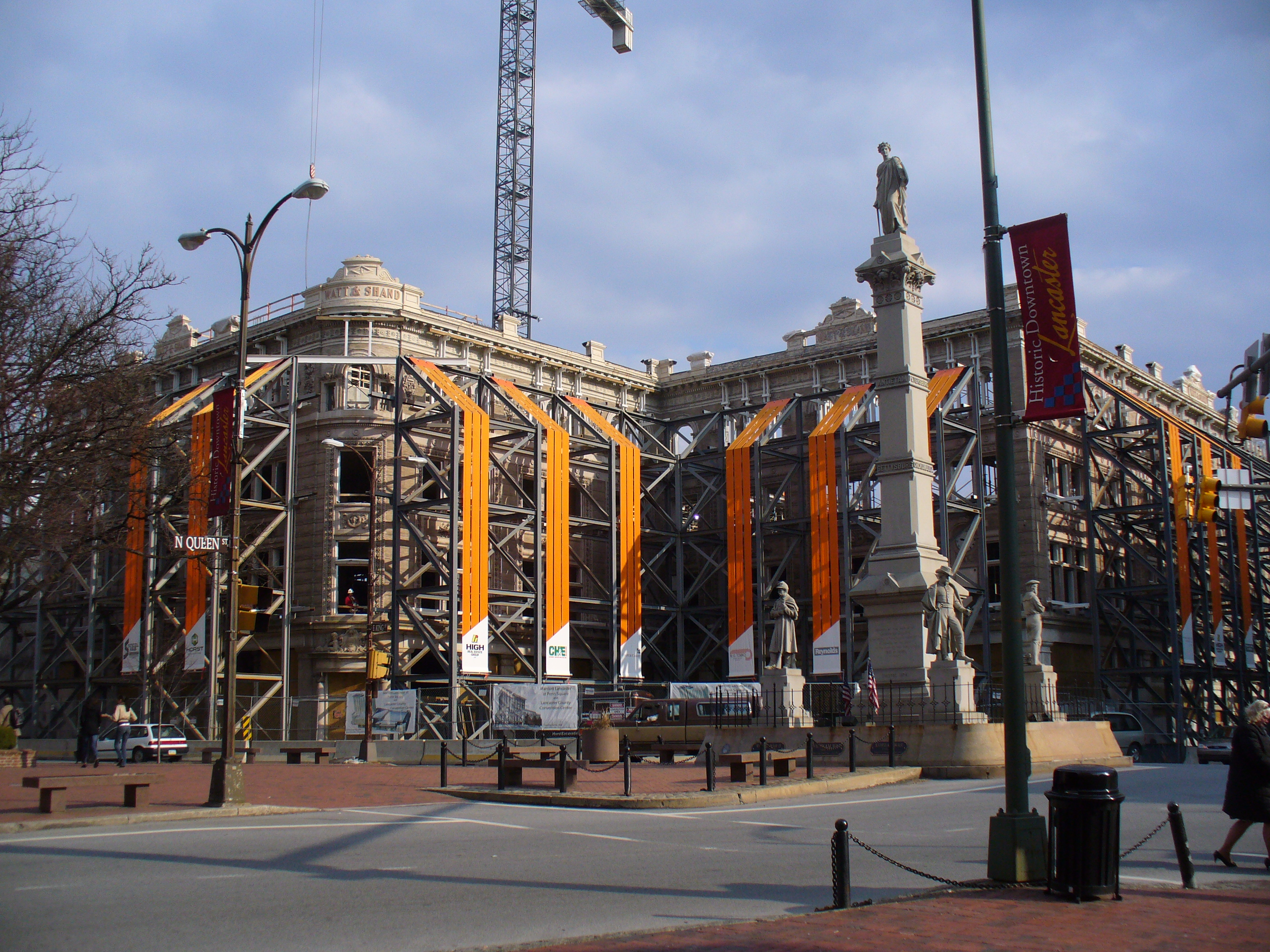 The Soldiers and Sailors Monument in downtown Lancaster, Pennsylvania, with the Lancaster County Convention Center (under construction) in the background.